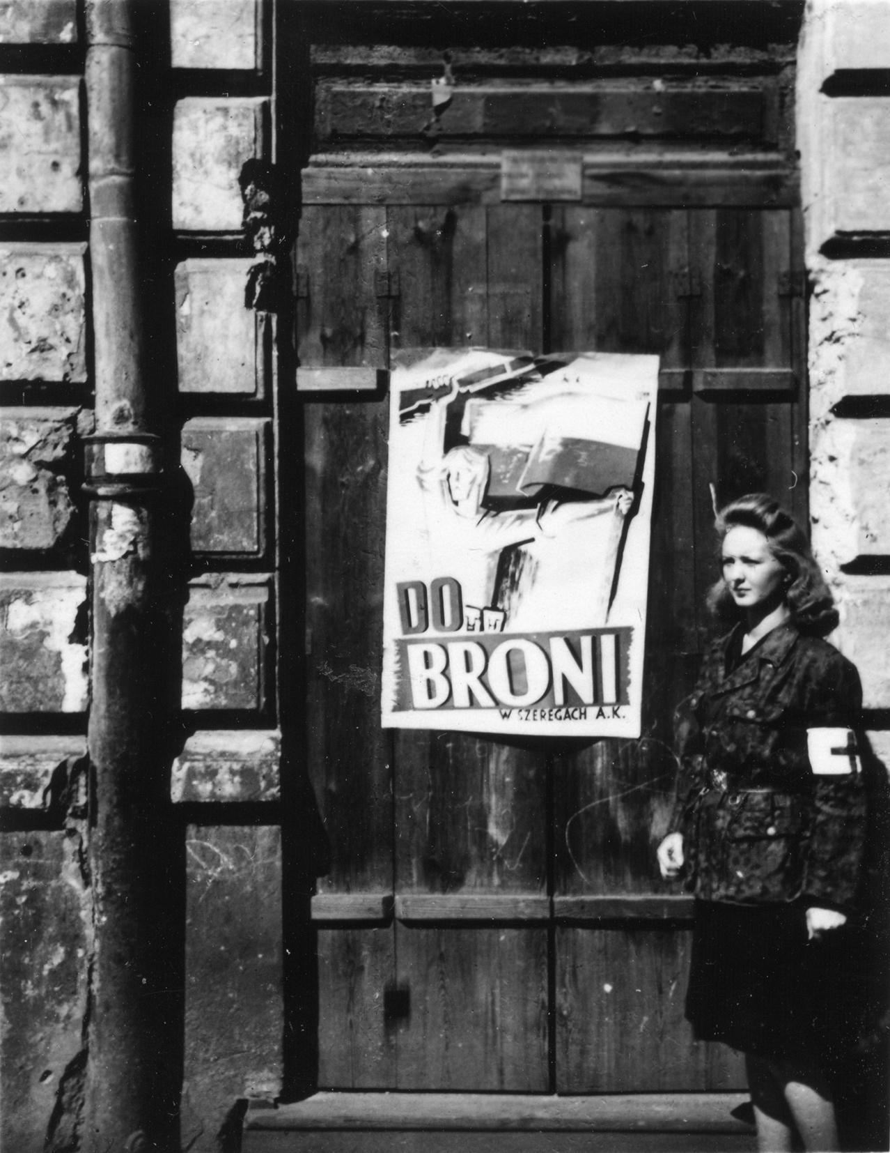 Warsaw Uprising, Muranowska street in Poland, 1944. Janina Marisówna-Tomiak nurse and actress. Poster: Let's go to arms in Polish Home Army.